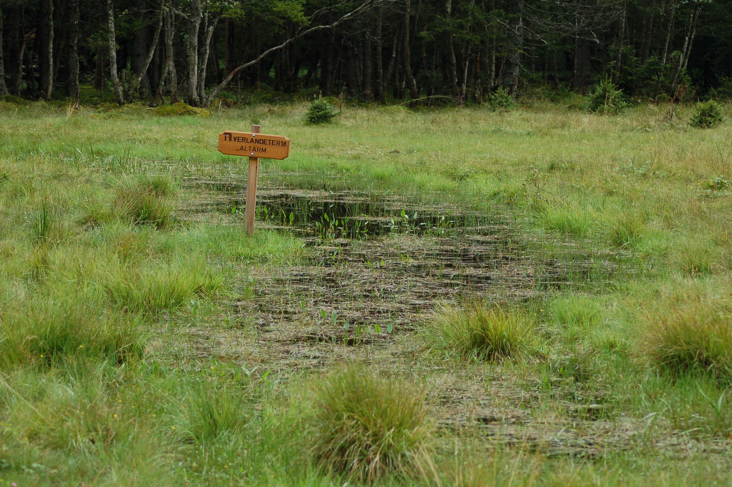 Bayou of river Seebach in the Seebach valley, Mallnitz, Carinthia.